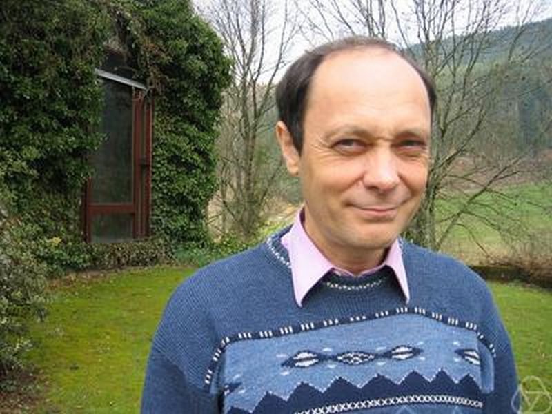 Vincent Rivasseau, Oberwolfach 2006